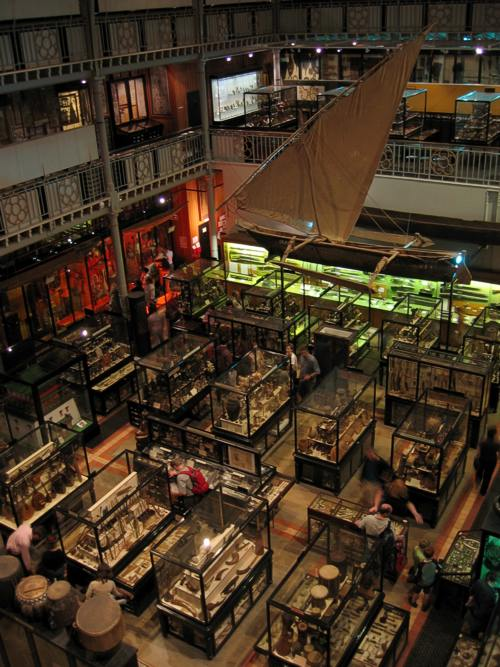 Pitt Rivers Museum. Photograph by Michael Reeve, 30 May 2004.